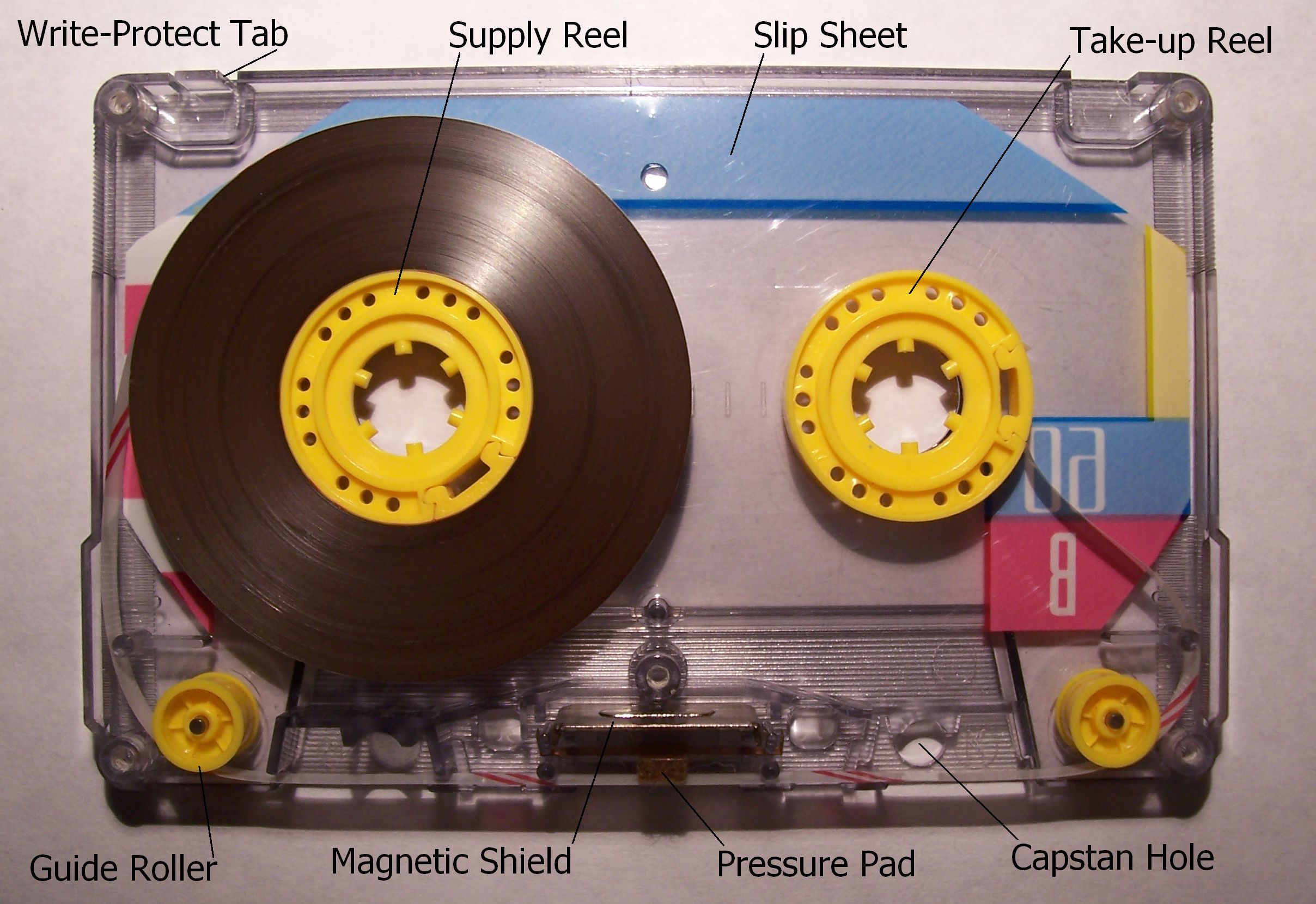 A late 1990's, 60 minute Memorex dBS cassette tape (made in Korea by SKC) with the top cover removed, showing & labeling the insides of the cassette tape. The 'clown cassette' had its bright colours printed on the transparent inner slipsheet, not the hard external shell.